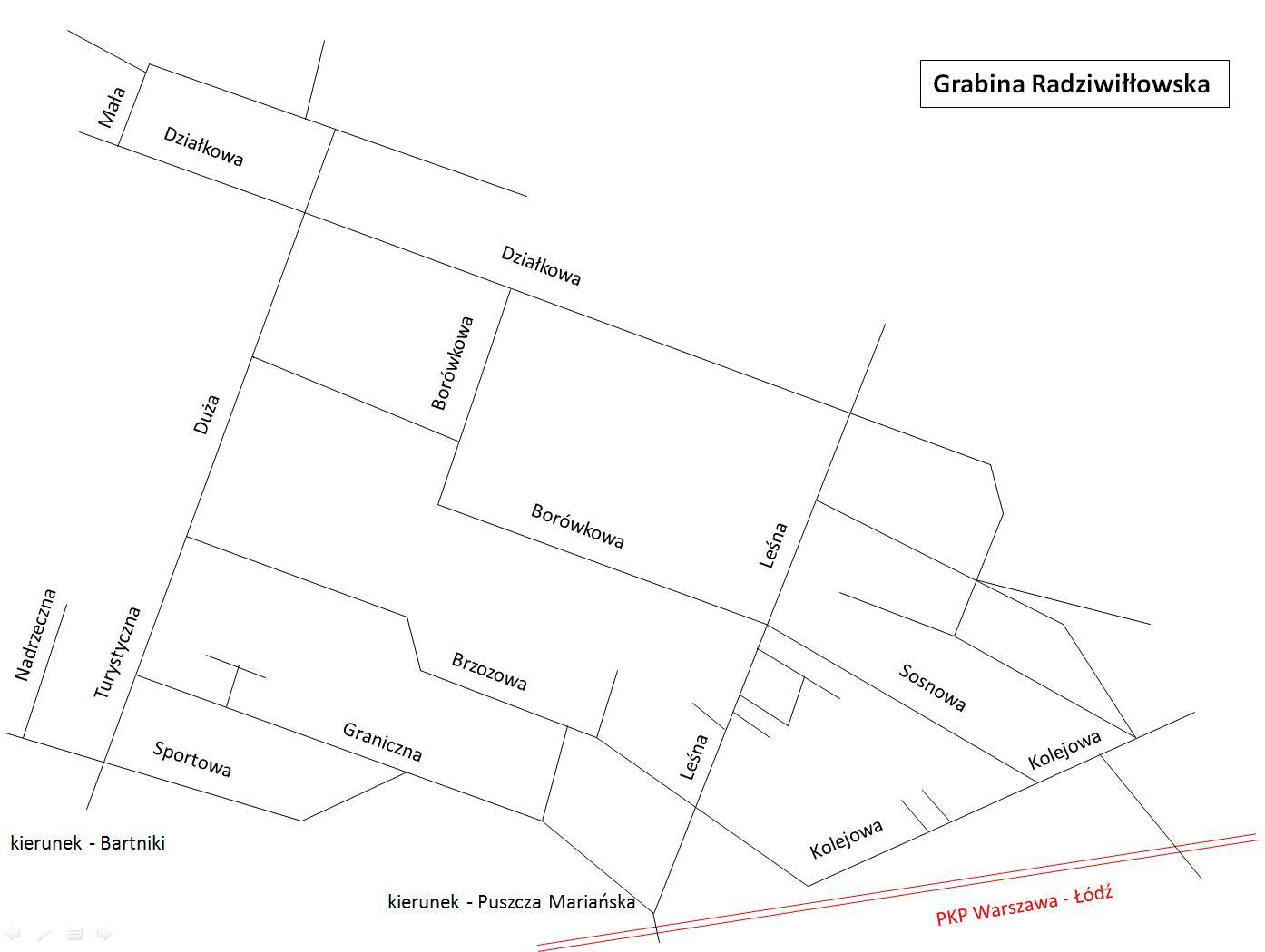 Plan